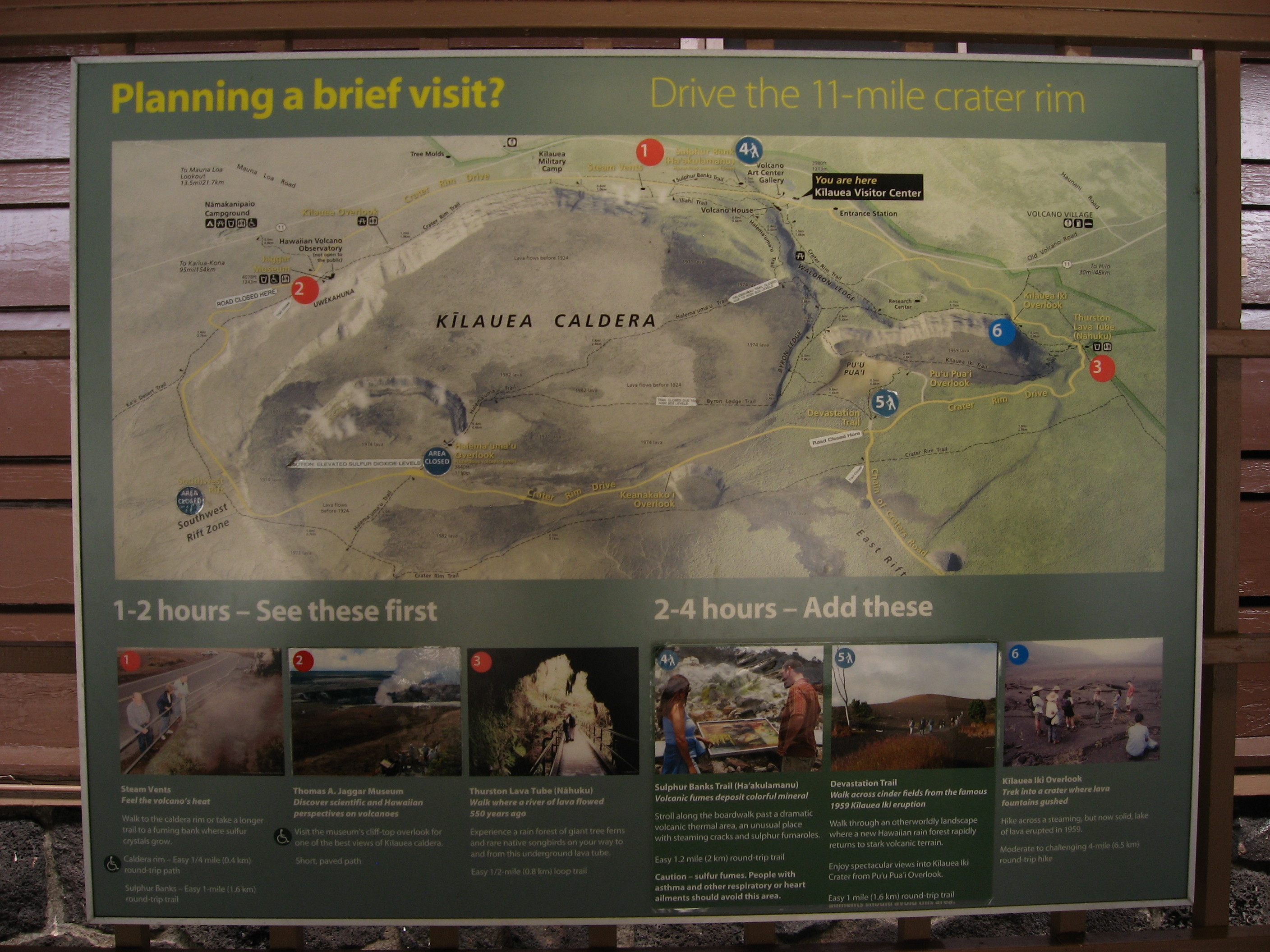 Hawaiʻi Volcanoes National Park, established in 1916, is a United States National Park located in the U.S. State of Hawaiʻi on the island of Hawaiʻi. It encompasses two active volcanoes: Kīlauea, one of the world's most active volcanoes, and Mauna Loa, the world's most massive volcano. The park gives scientists insight into the birth of the Hawaiian Islands and ongoing studies into the processes of vulcanism. For visitors, the park offers dramatic volcanic landscapes as well as glimpses of rare flora and fauna. In recognition of its outstanding natural values, Hawaiʻi Volcanoes National Park was designated as an International Biosphere Reserve in 1980 and a World Heritage Site in 1987. In 2000 the name was changed by the Hawaiian National Park Language Correction Act of 2000 observing the Hawaiian spelling. The park includes 323,431 acres (505.36 sq mi; 1,308.88 km2) of land. Over half of the park is designated the Hawaii Volcanoes Wilderness area and provides unusual hiking and camping opportunities. The park encompasses diverse environments that range from sea level to the summit of the Earth's most massive volcano, Mauna Loa at 13,677 feet (4,169 m). Climates range from lush tropical rain forests, to the arid and barren Kaʻū Desert. Active eruptive sites include the main caldera of Kīlauea and a more active but remote vent called Puʻu ʻŌʻō. The main entrance to the park is from the Hawaii Belt Road. The Chain of Craters Road, as the name implies, leads past several craters from historic eruptions to the coast. It used to continue to another entrance to the park near the town of Kalapana, but that portion is now covered by a lava flow.